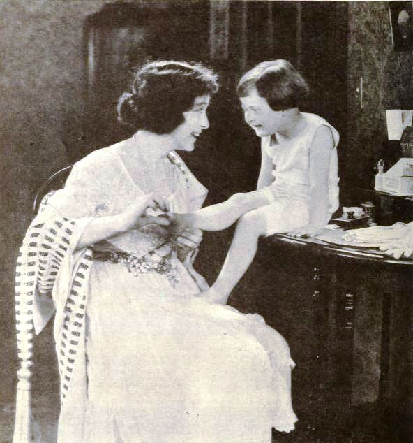 Still from the American silent film Hail the Woman (1921) with Florence Vidor and Muriel Frances Dana as the boy, page 28 of the December 1921 Photoplay.